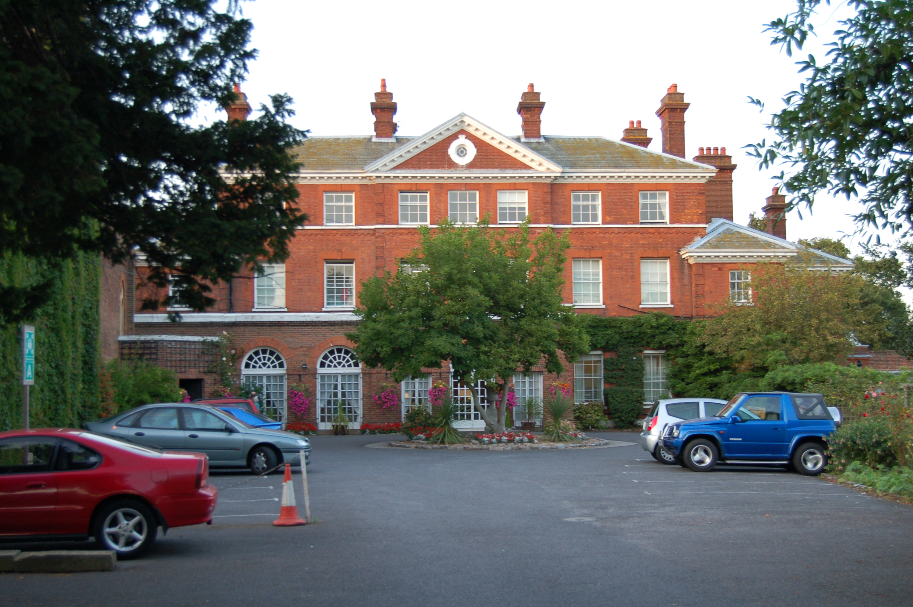 Home of Compassion, Elmbridge. Taken by the contributor, 10-Sept-06.